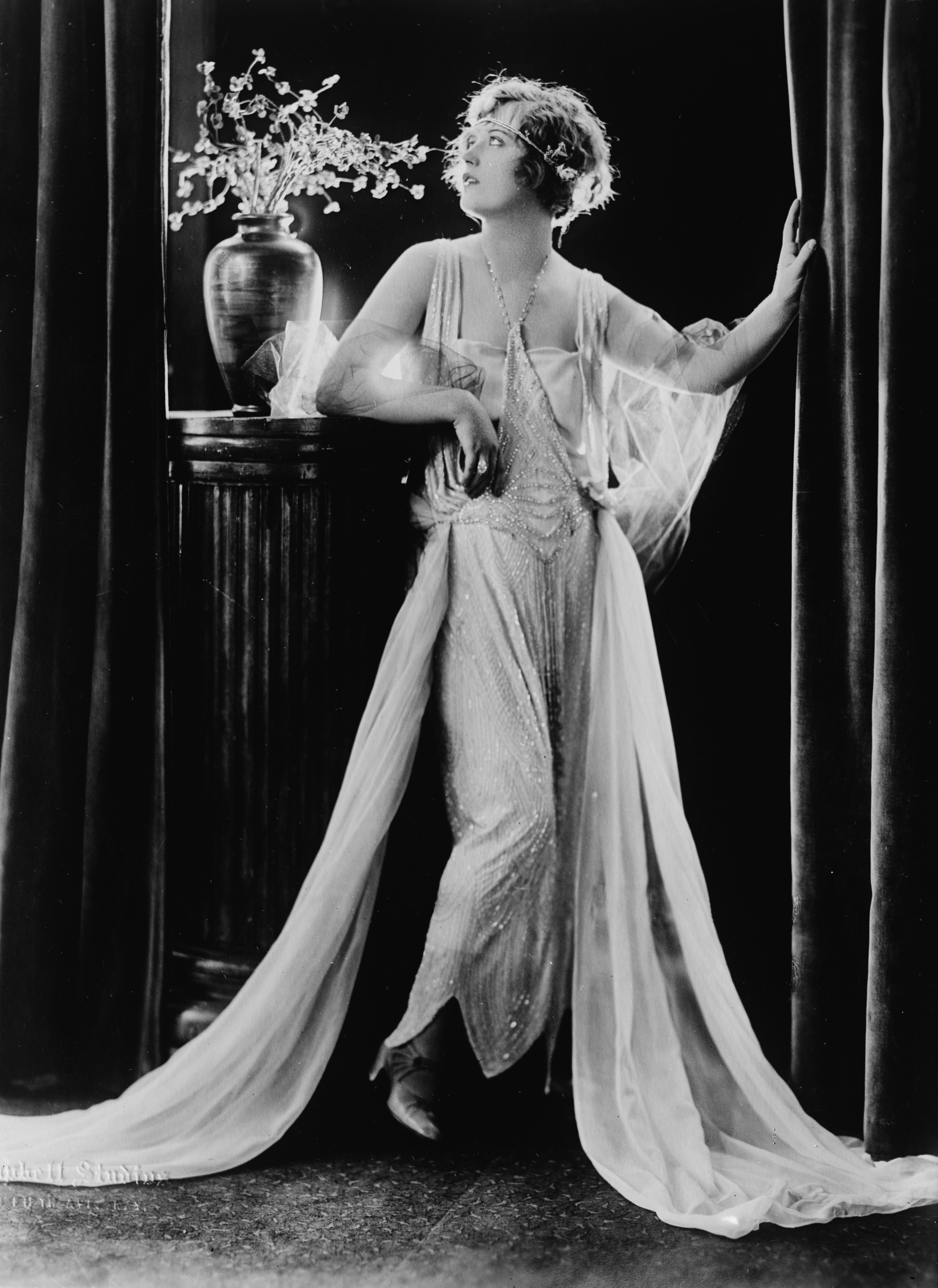 Marion Davies